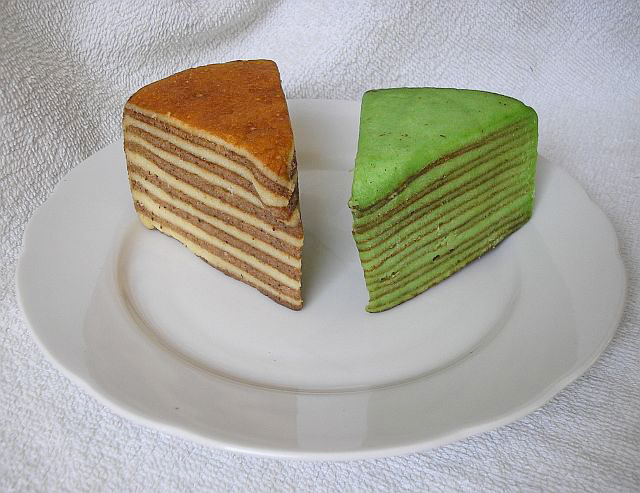 Spekkoek ('bacon cake') - Indonesian layered 'pies'. Despite the literal translation of the name, it contains no bacon. Location: Netherlands Keywords: Spekkoek, Indonesia, pie, cake, sweet nl: Spekkoek - Indische lekkernij Locatie: Nederland Trefwoorden: Spekkoek, Nederlands-Indië, cake, koek